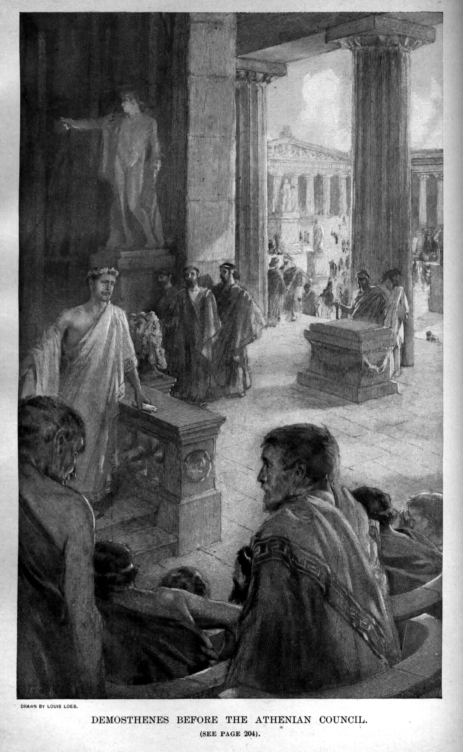 Demosthenes before the Athenian Council